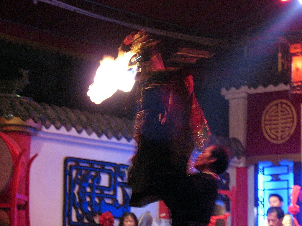 Sichuan opera in Chengdu. Puppets.